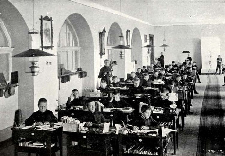 History of Chyrów